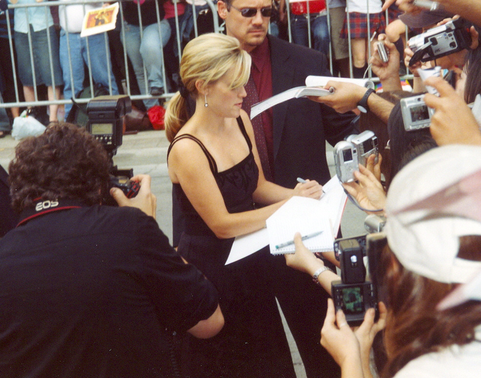 Reese Witherspoon signing autographs at the premiere of Walk The Line at the 2005 Toronto International Film Festival.